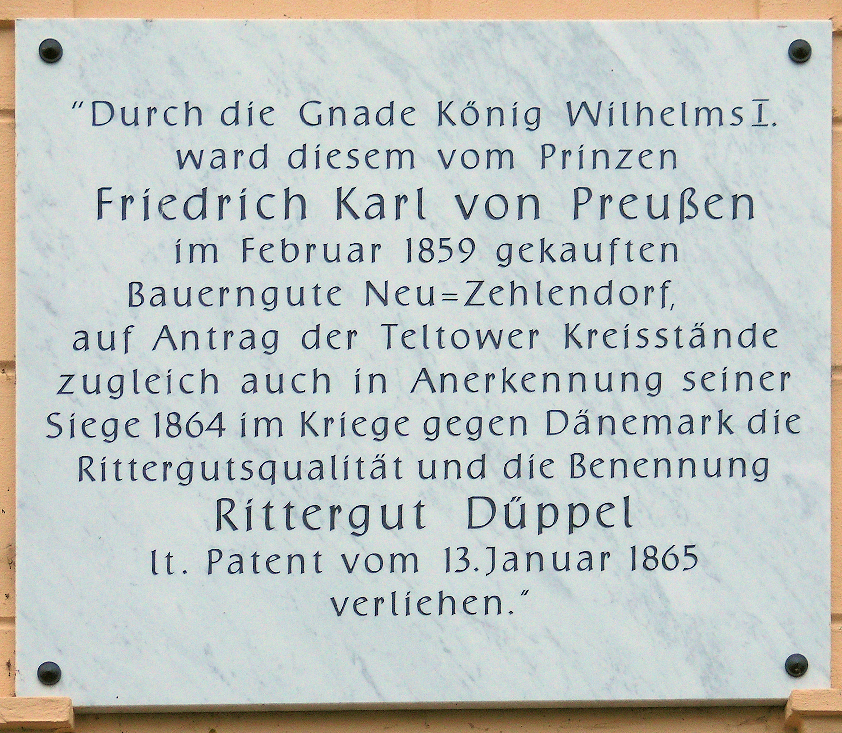 Memorial plaque, Rittergut Düppel, Wolzogenstr, Berlin-Zehlendorf, Germany Koordinate:52°25′45″N 13°14′12″E / 52.42917°N 13.23667°E